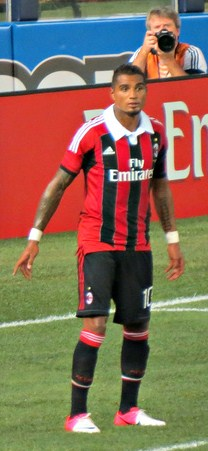 Kevin-Prince Boateng playing for A.C. Milan vs. Real Madrid in the 2012 World Football Challenge